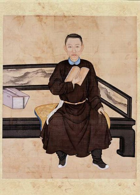 Prince Yinzhen (the future Yongzheng Emperor) Reading a Book, Qing dynasty, Palace Museum